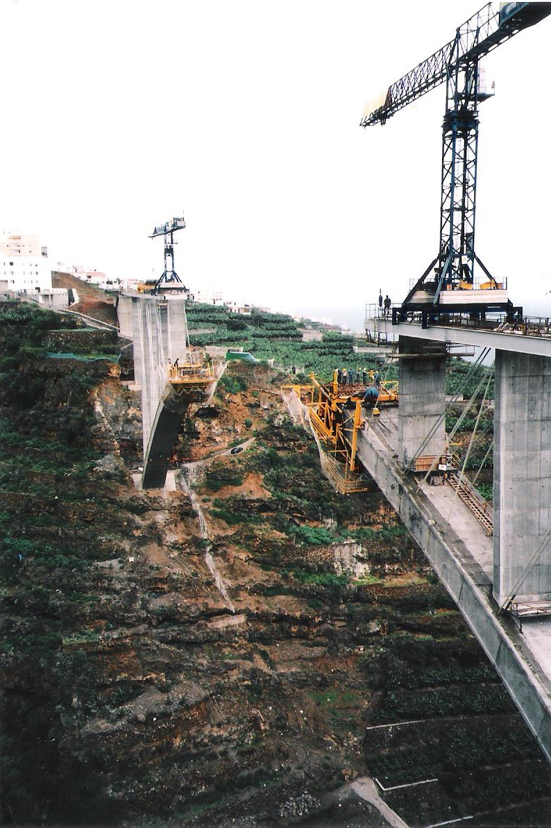 Puente de Los Tilos, inaugurated in December 2004